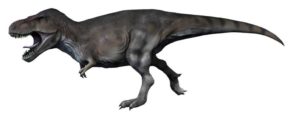 Nobu Tamura's most recent reconstruction of Tyrannosaurus